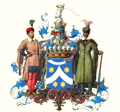 Coat of Arms of family Tipolt